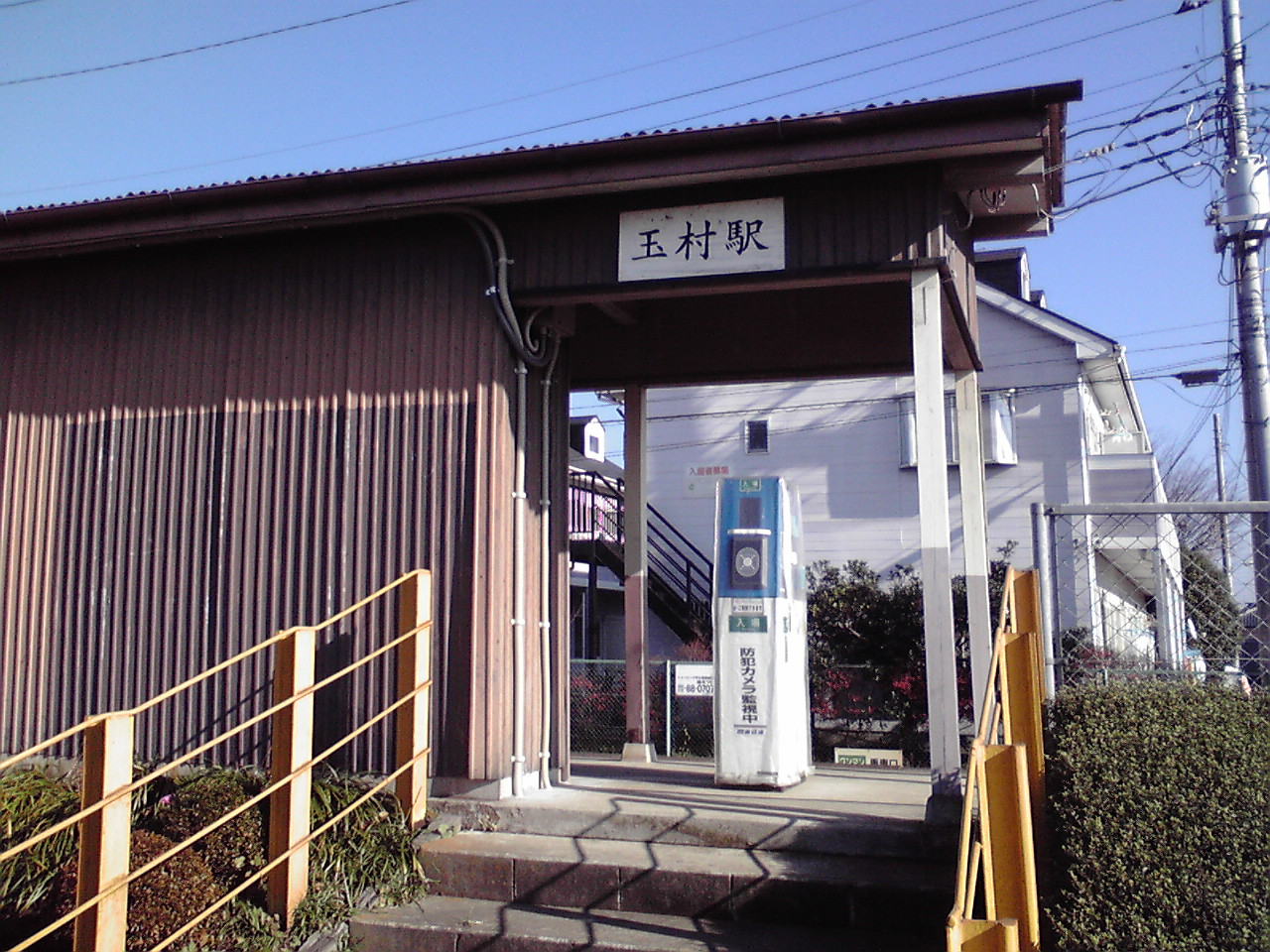 This is the Kanto railway Joso line Tamamura station, which is located in Joso, Ibaraki, Japan.